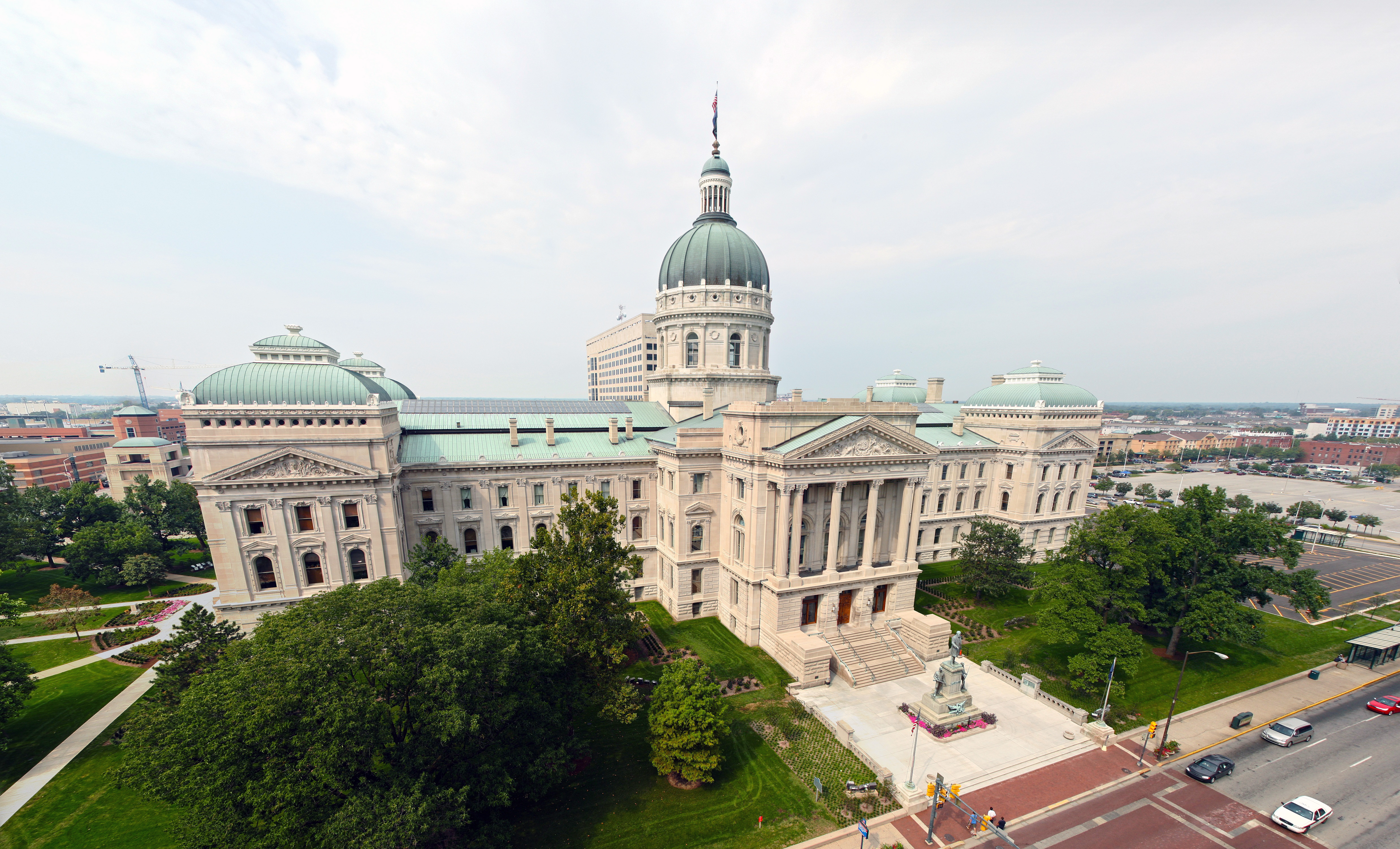 Indiana State Capitol This image was created with Hugin